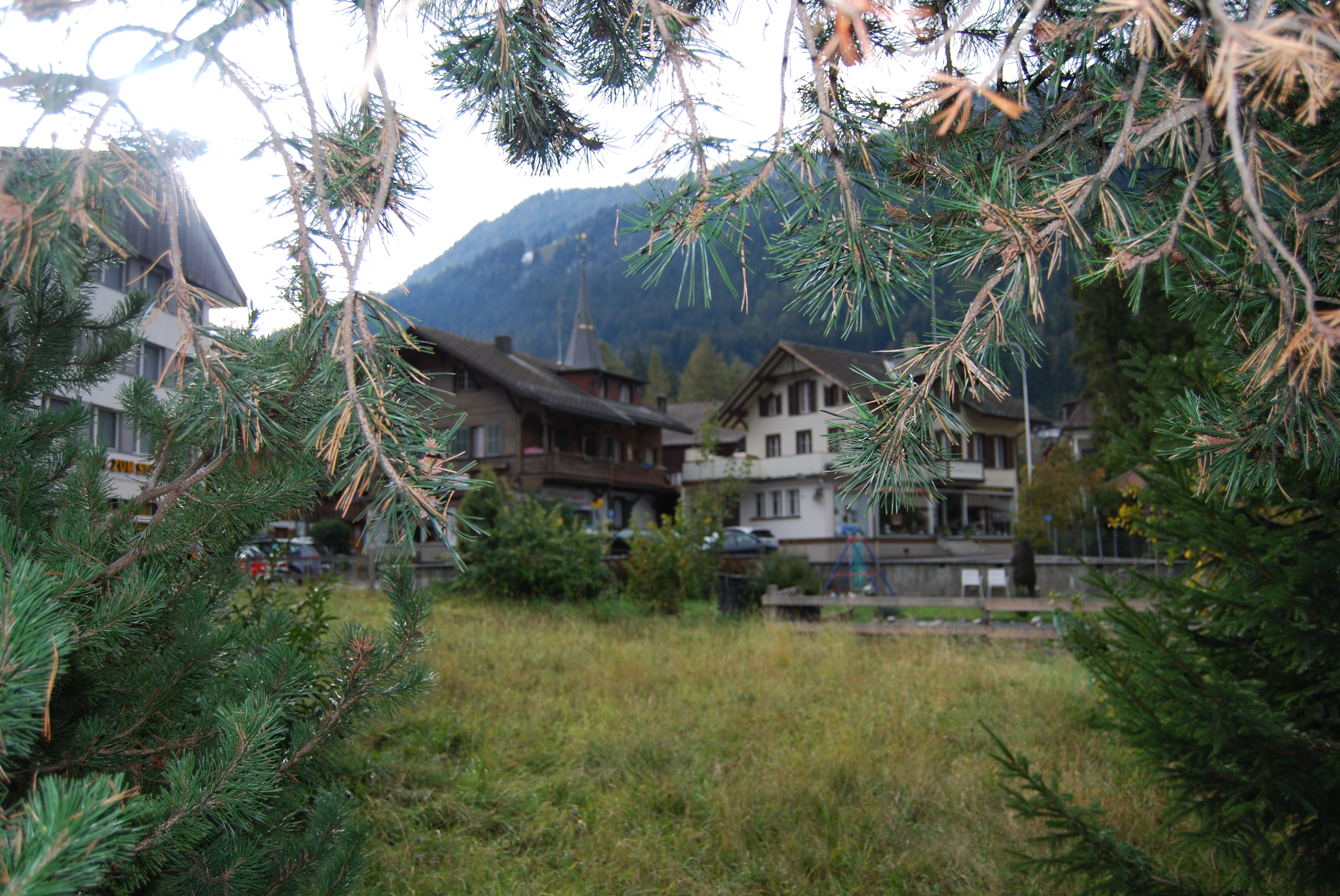 Zweisimmen, canton of Bern, SwitzerlandEsperanto: Zweisimmen, Kantono Berno, Svislando